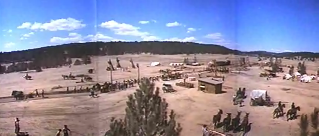 Cropped screenshot of the film How the West Was Won